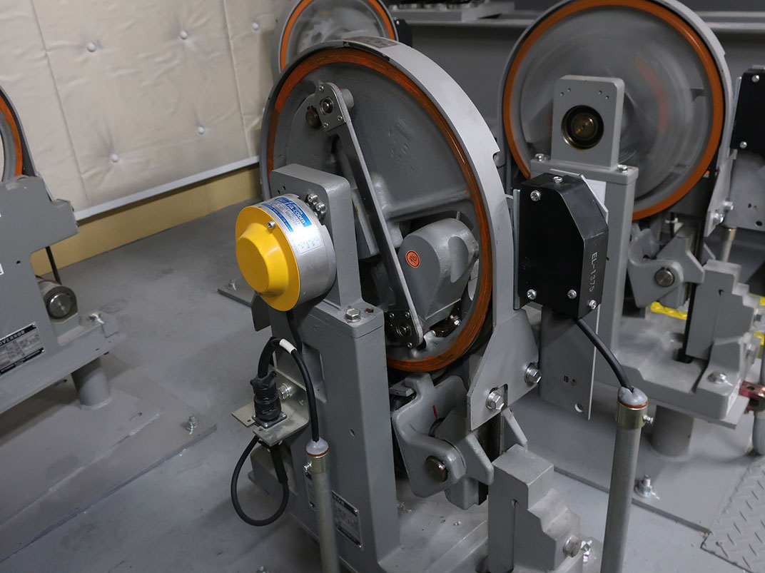 Elevator governor in a machine room